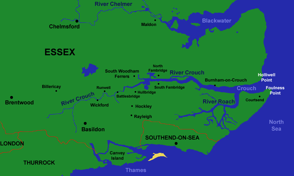 A map showing the course of the River Crouch